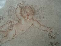 Detail of original engraving "The Hours" by Francesco Bartolozzi showing one of the cherubs